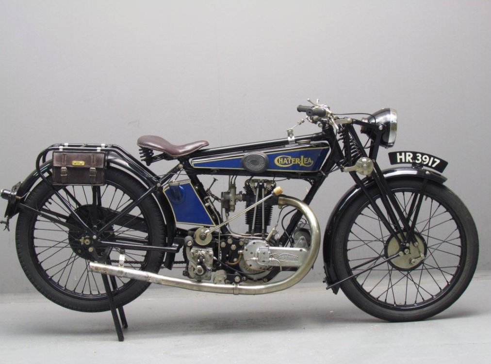 1926 Chater-Lea 348 cc “ Super Sports” OHV Blackburne frame # 267513 engine # CK 1645 3337